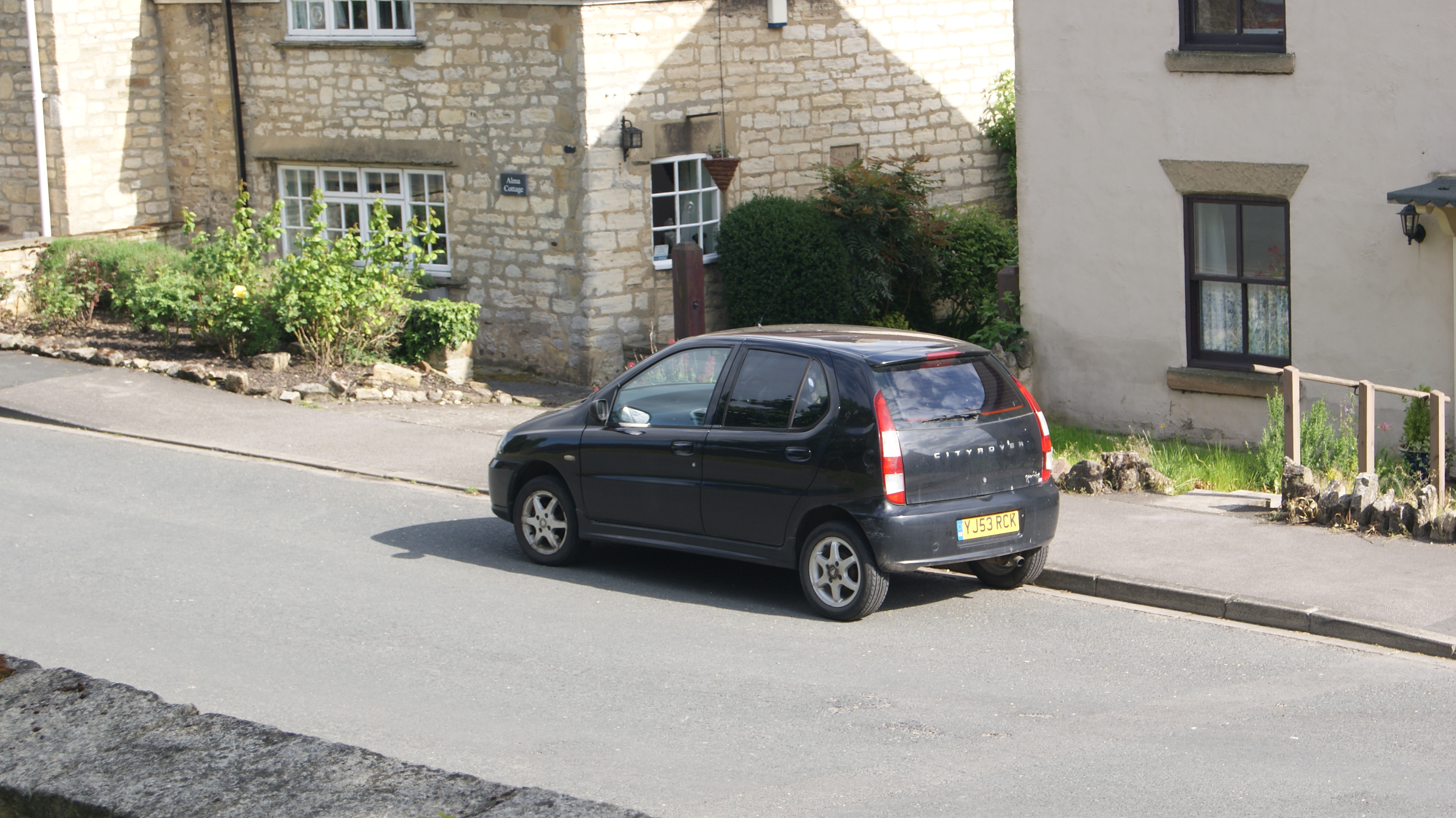 Rover CityRover, Main Street, Walton (near Wetherby), Leeds, West Yorkshire. Taken on the evening of Tuesday the 24th of May 2016.